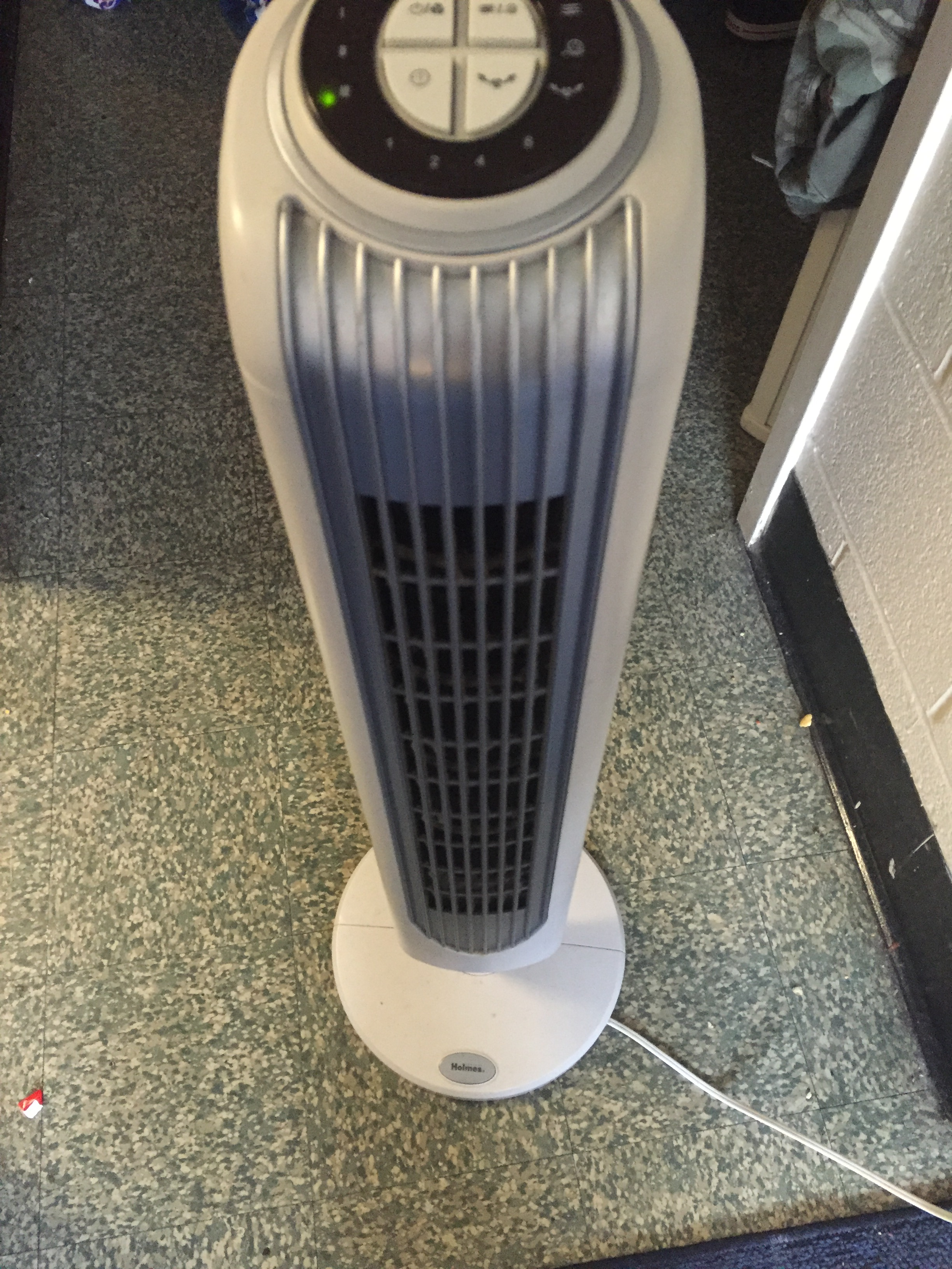 Rotating tower fan made by Holmes